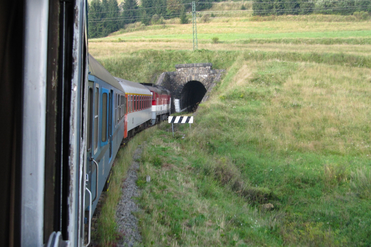 Express train Horehronec running into the Telgart Tunnel